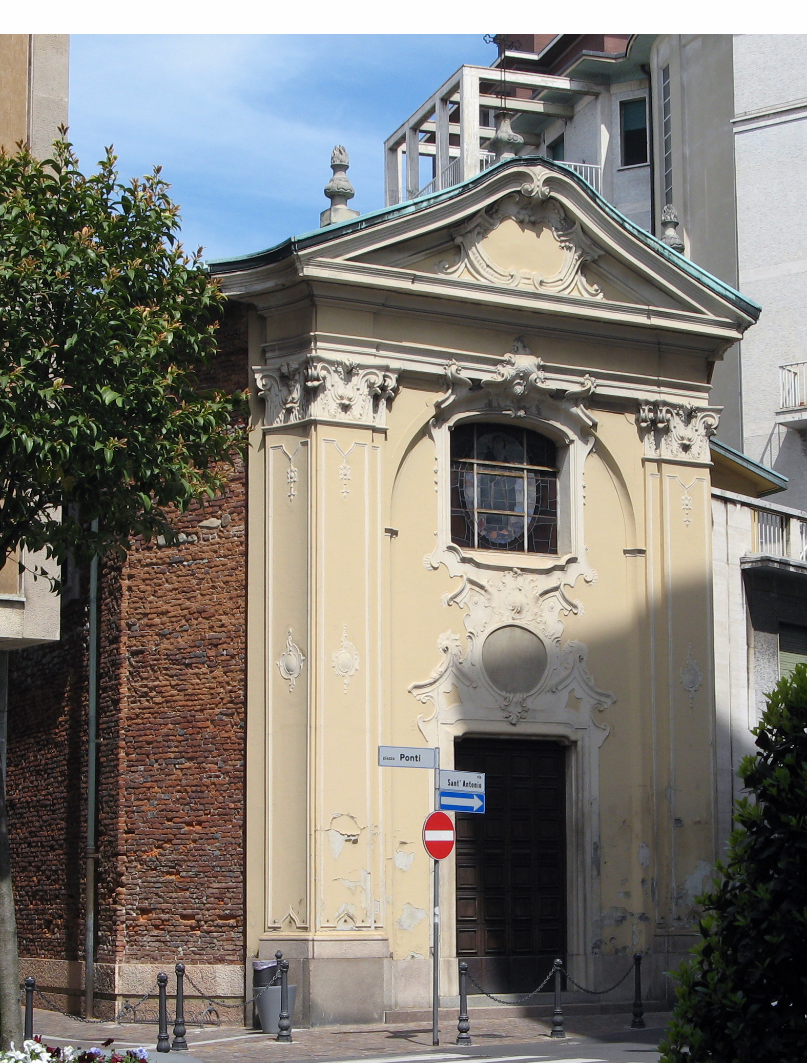 Church of Saint Antonio abate (Gallarate, Italy).